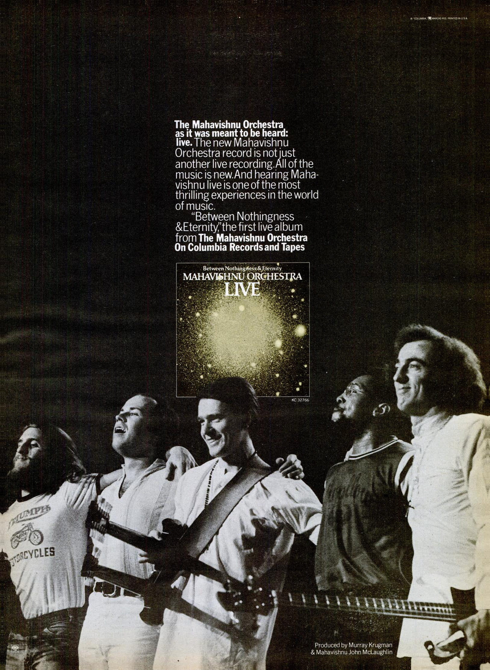 1973 trade advert of American jazz fusion band Mahavishnu Orchestra's album "Between Nothingness and Eternity" published on Billboard Magazines.